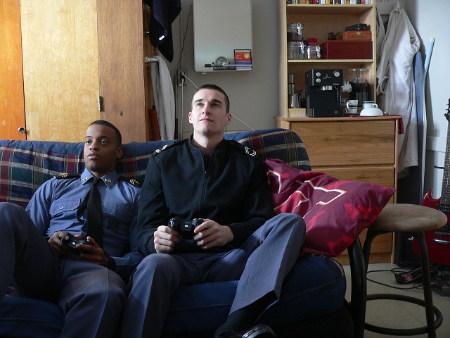 A picture of two cadets in their off-time in the Dorms of Virginia Tech